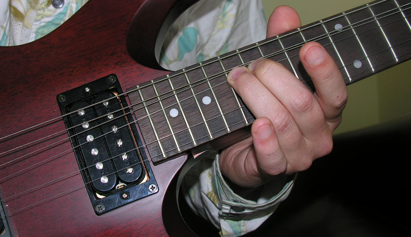 Guitar bending example